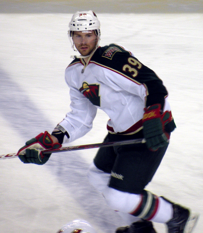 Minnesota Wild defenceman Nate Prosser prior to a National Hockey League game against the Calgary Flames.